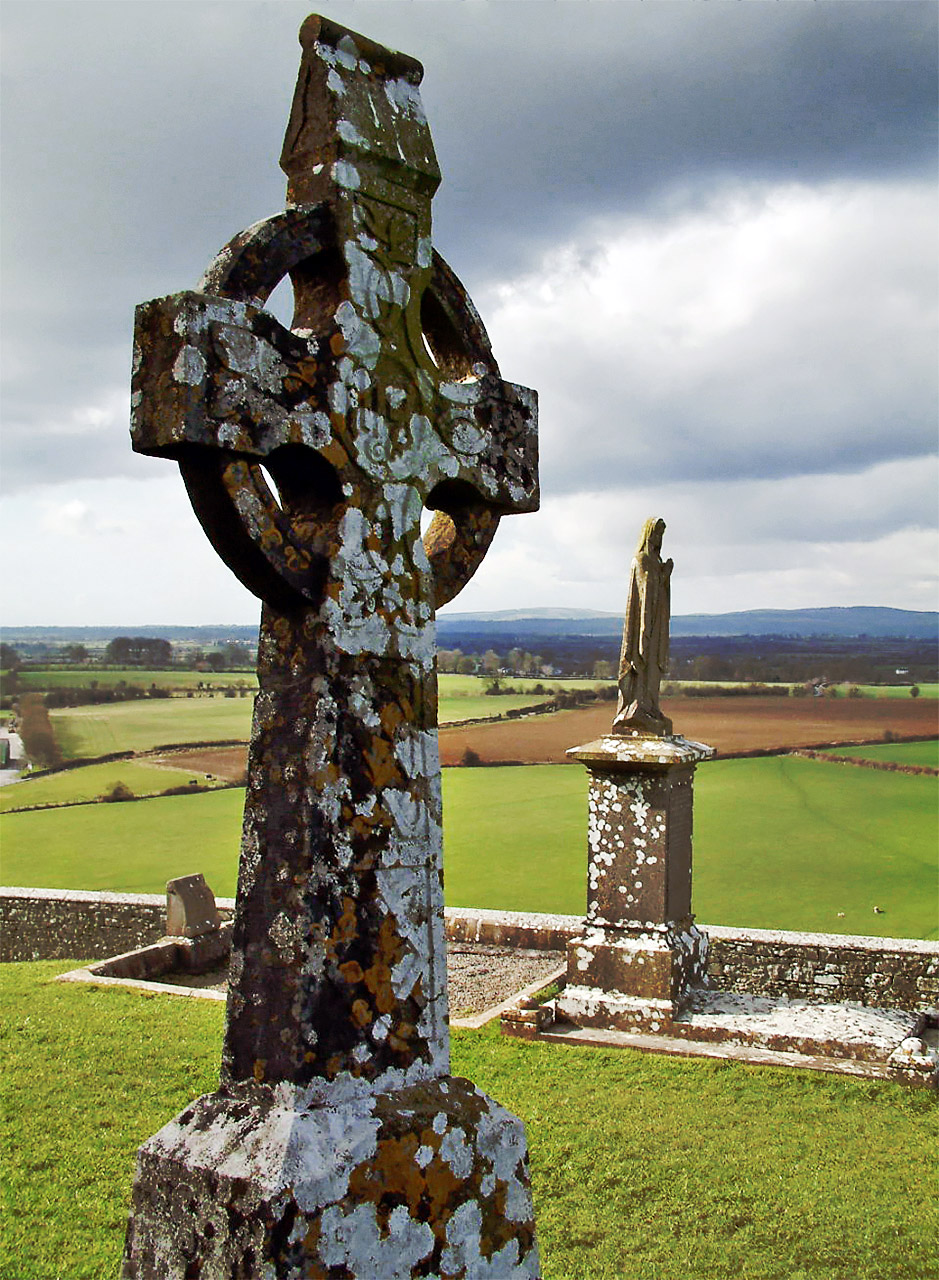 A high cross at the Rock of Cashel in Ireland. This image was created by joining the top of one image with the body of another to have the complete top of the cross.